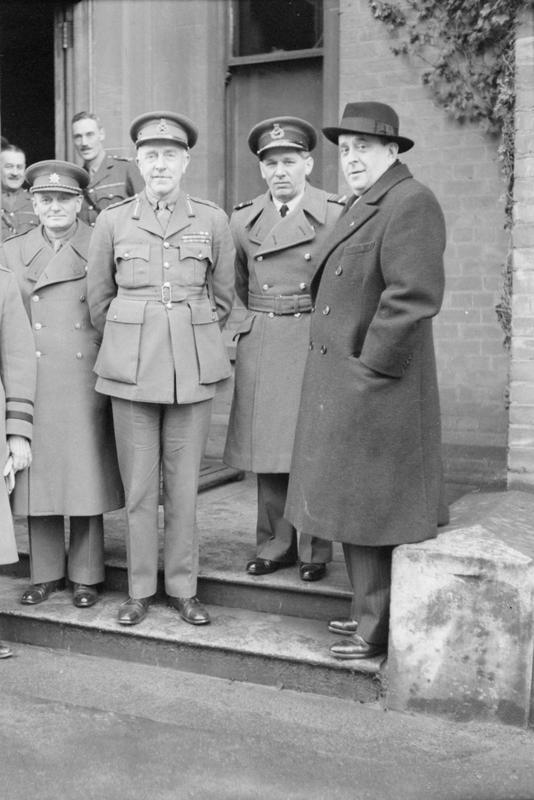 The Czechoslovak Government in Exile during the Second World War Members of the Czech Government in Exile visiting Northern Ireland. Left to right: Brigadier General Edmund Hill (USA); General Jan Sergěj Ingr, Minister of National Defence and Commander in Chief of Czechoslovak Forces; Lieutenant General Harold Edmund Franklyn CB DSO MC, General Officer Commanding British Troops in Northern Ireland; Air Vice Marshal Karel Janoušek, General Officer Commanding the Czechoslovak Air Force; and Mr Jan Masaryk, Deputy Prime Minister and Foreign Minister of Czechoslovakia.